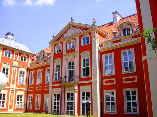 Fine arts academy